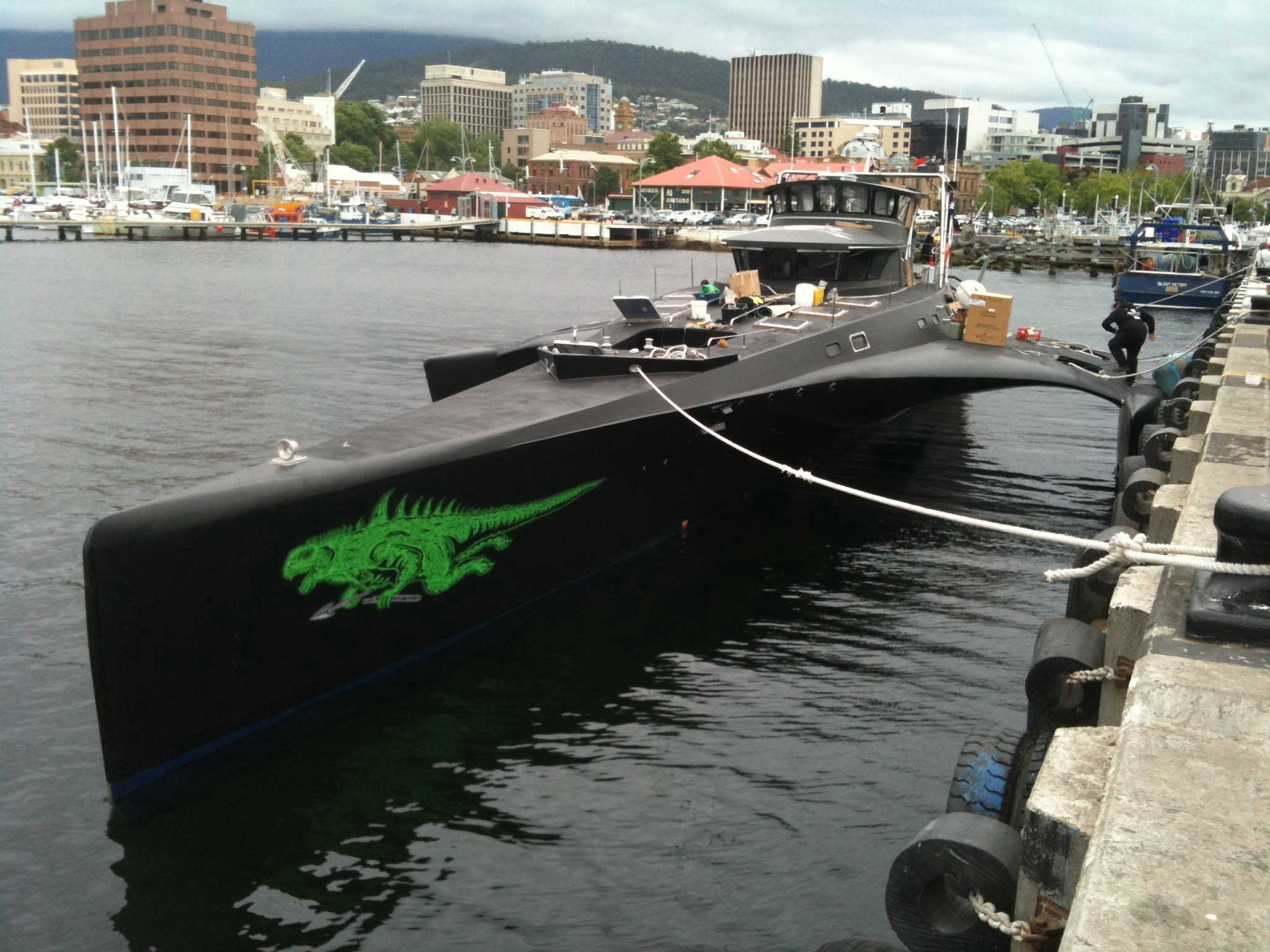 This time last year I took some pictures of the ill fated Ady Gil, here's hoping that the Gojira has more luck when she sails off to do battle with the Japanese whaling fleet